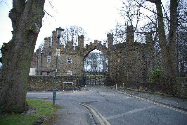 Gatehouse. This gatehouse was once the entrance to the Huntroyde Demesne Estate but when the A6068 at the rear of the gatehouse it was effectivifly cutoff from the estate